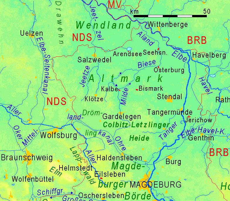 physical map of the Altmark, cut of image:Sachsen-Anhalt.gif